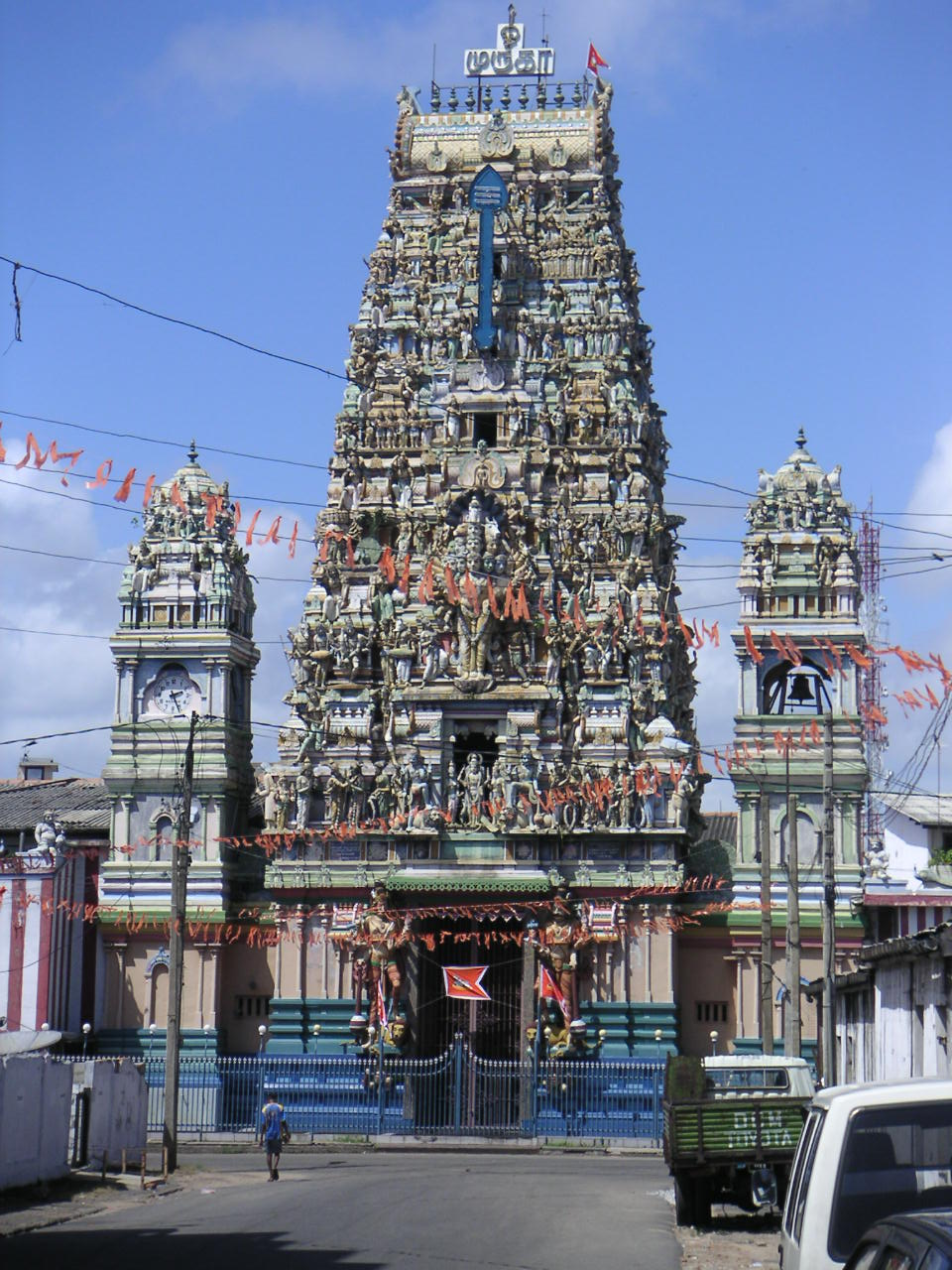 Hindu temple, Colombo, Sri Lanka. Photo: Soman